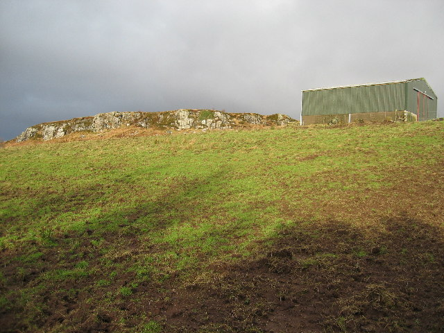 Barn at Achachork. Situated at the highest point of cultivated land in the township.